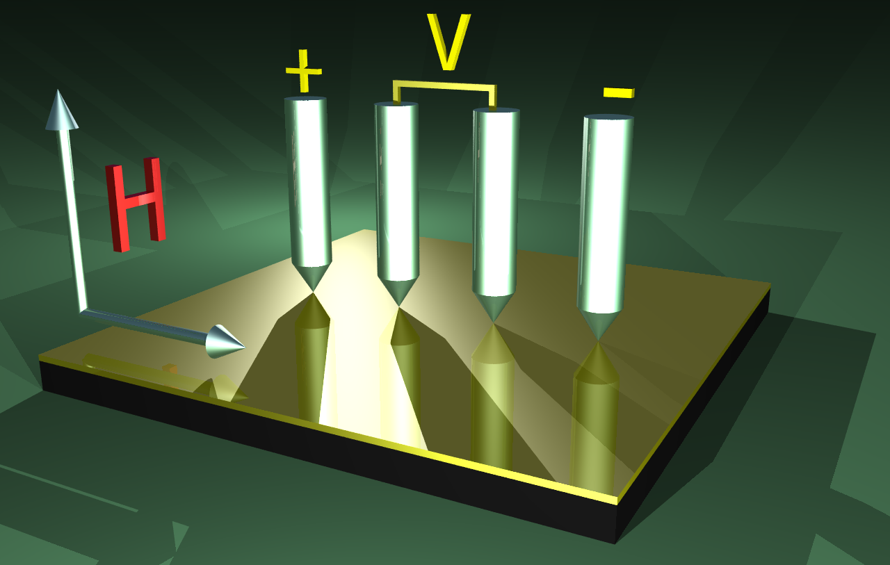 Schematics of the four-point probe for resistance measurements. Made with Pov-Ray software.